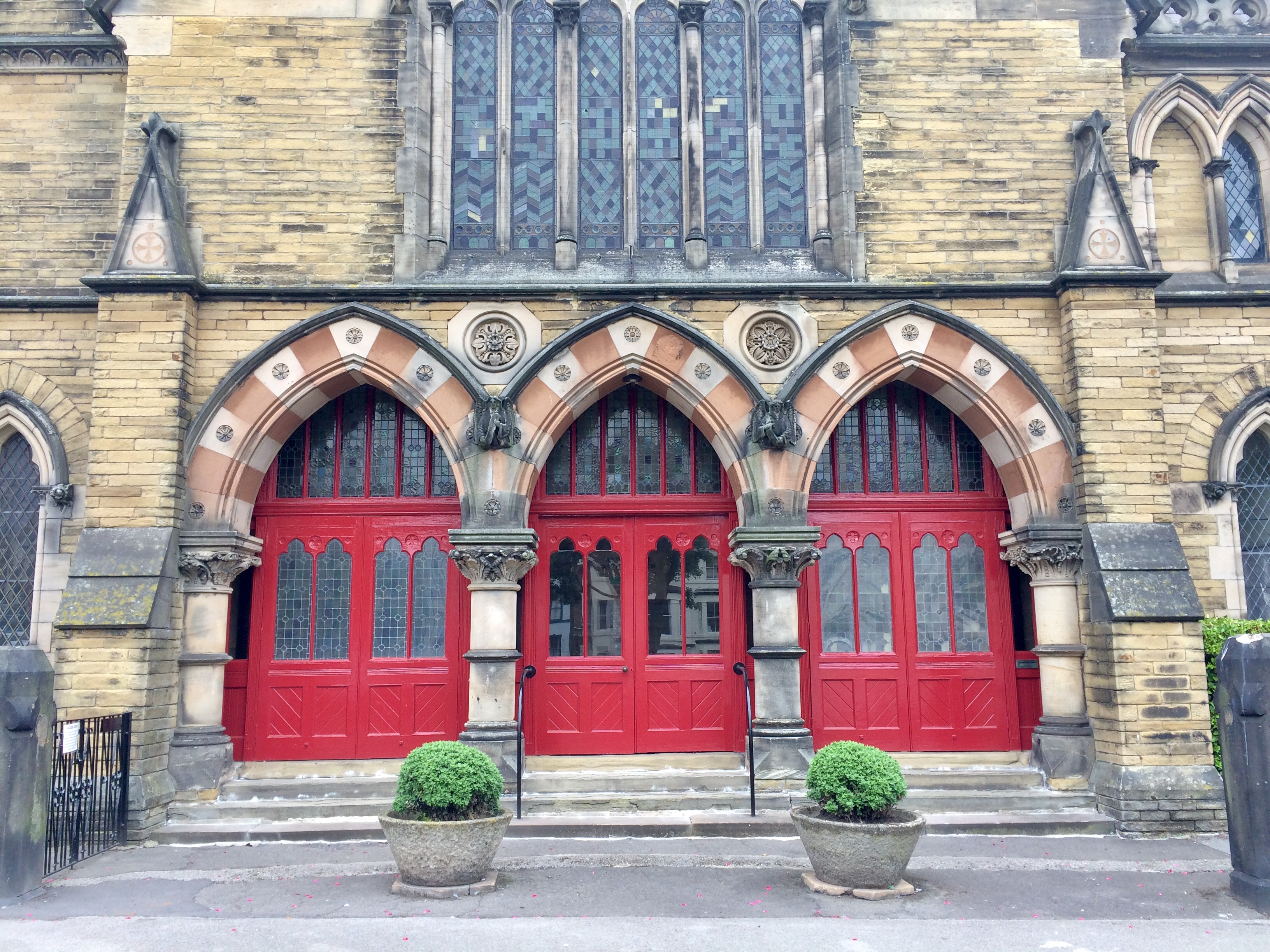 Triple arch entrance, Albemarle Baptist Church Wikidata has entry Q26562588 with data related to this item.